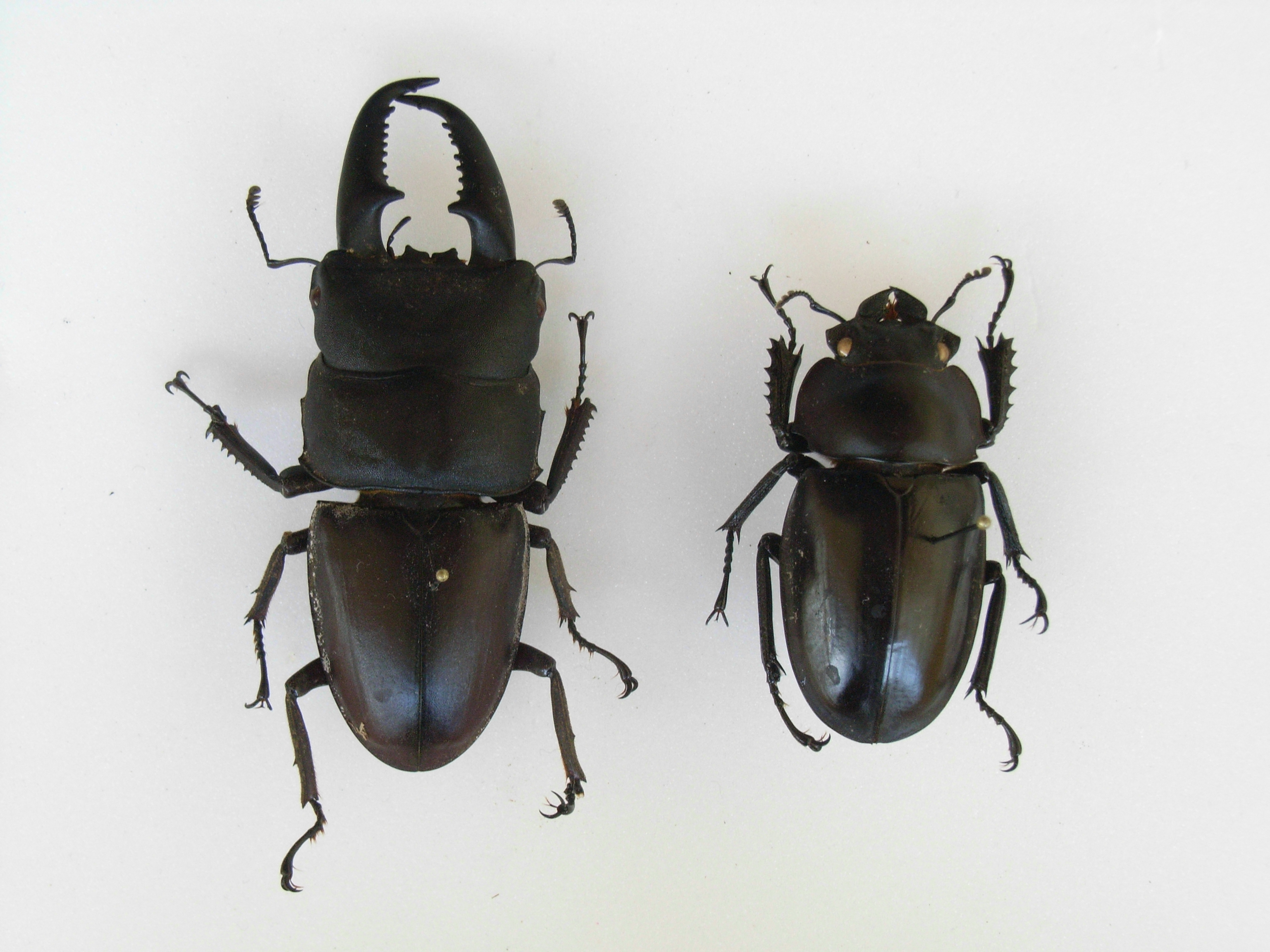 Dorcus bucephalus (Perty,1831) Pair Male left Ex coll.Felix Stumpe